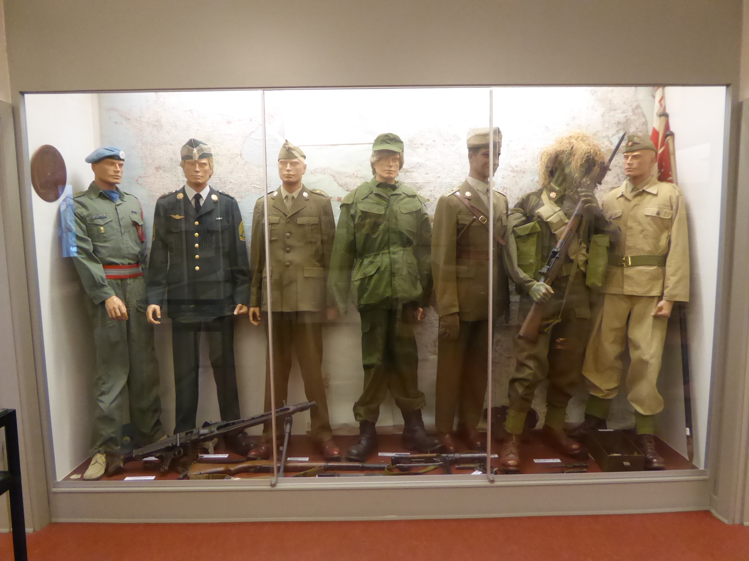 The museum of the Royal Life Guard of Denmark in Copenhagen. Uniforms of the guard from the later part of the 20th century.